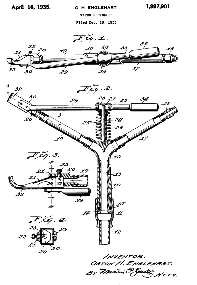 US Patent #1,997,901 Water Sprinkler from Orton H. Englehart, showing an impact sprinkler.